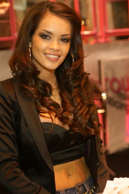 Daisy Marie at the 2008 AVN Expo signing for Pink Visual